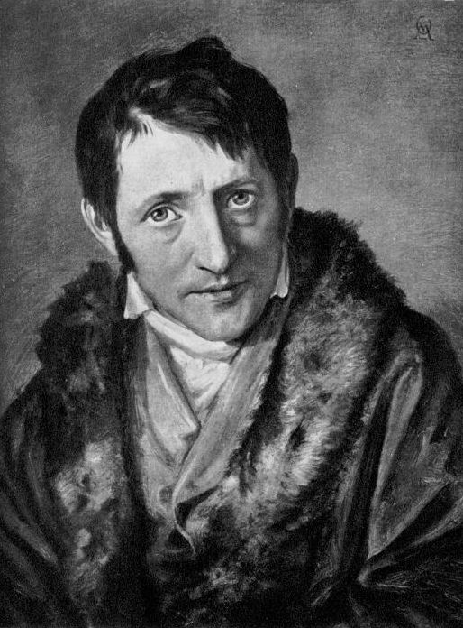 Ludwig Boerne